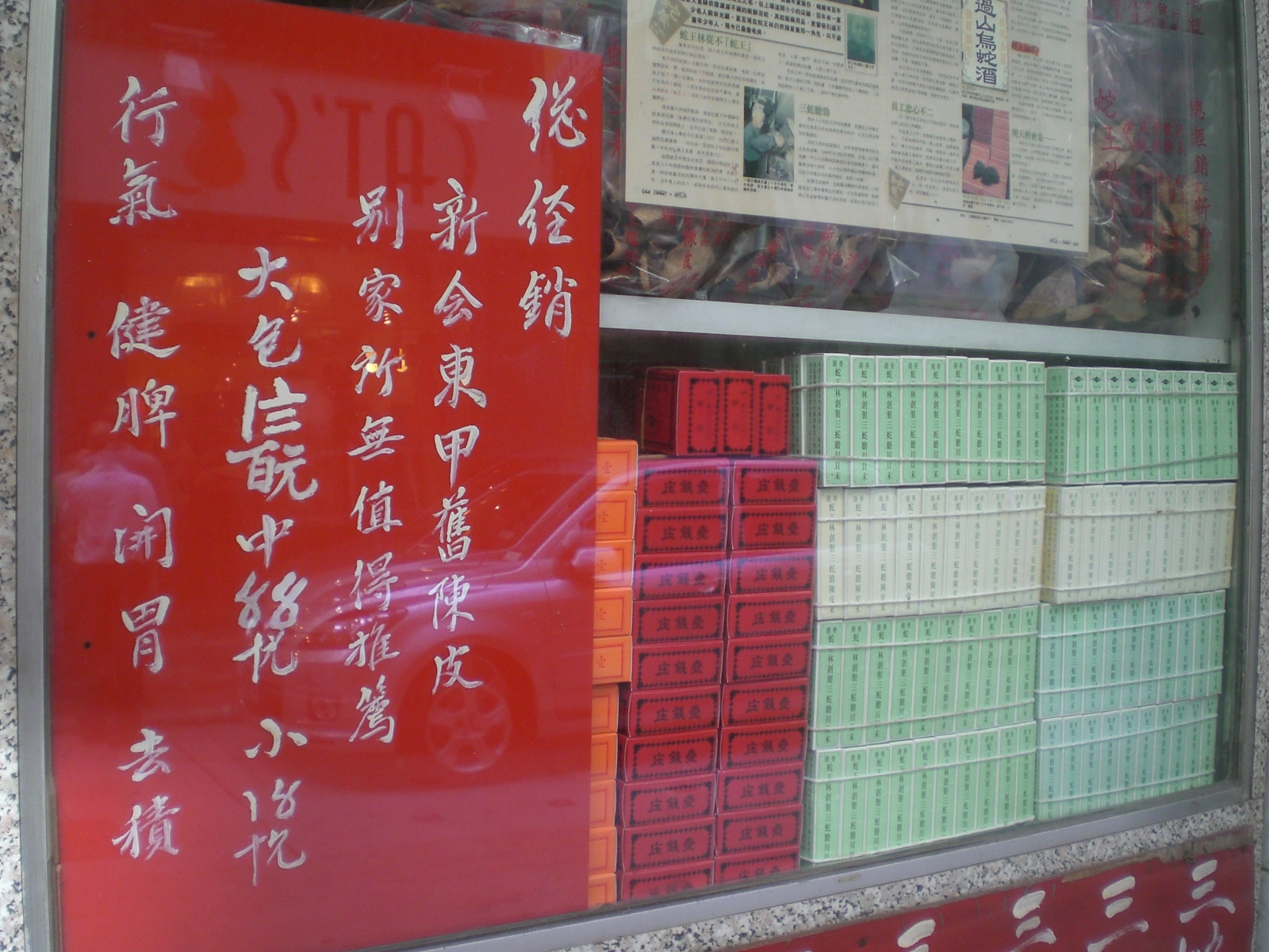 香港島zh:上環